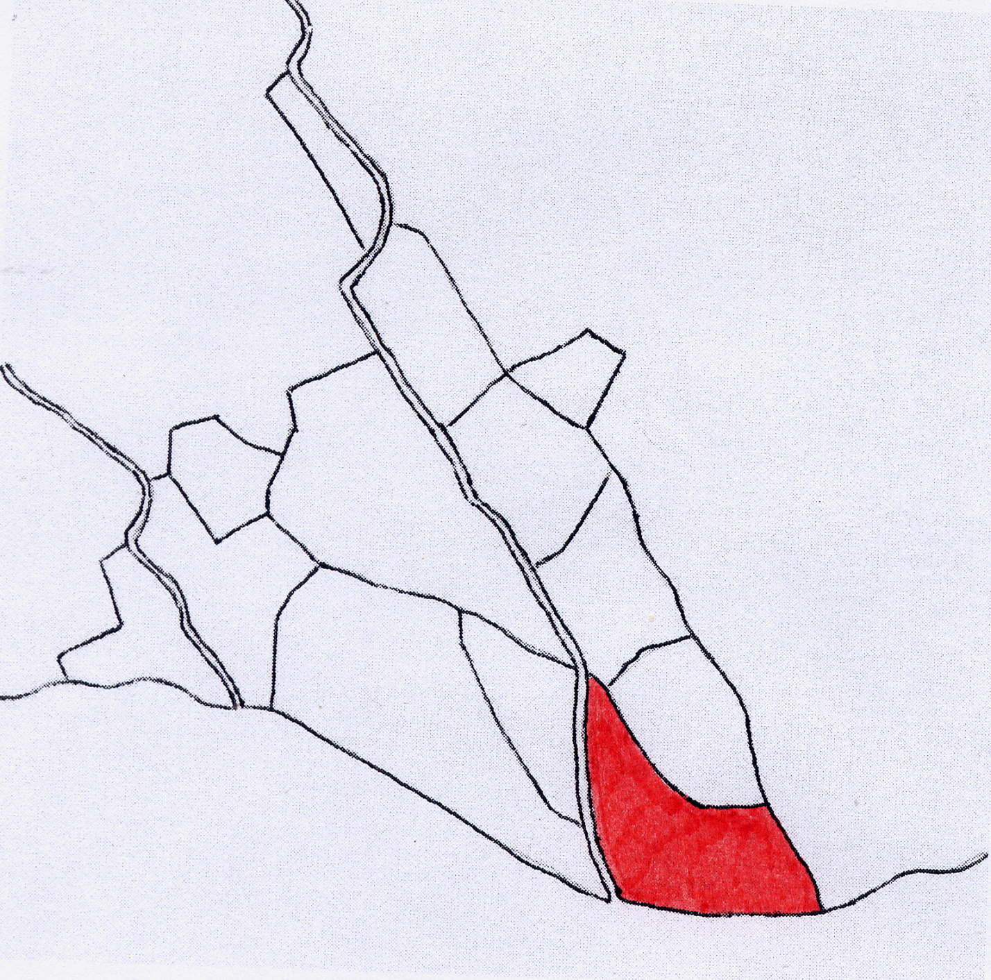 Tsentralny microdistrict in Tsentralny City district of Sochi